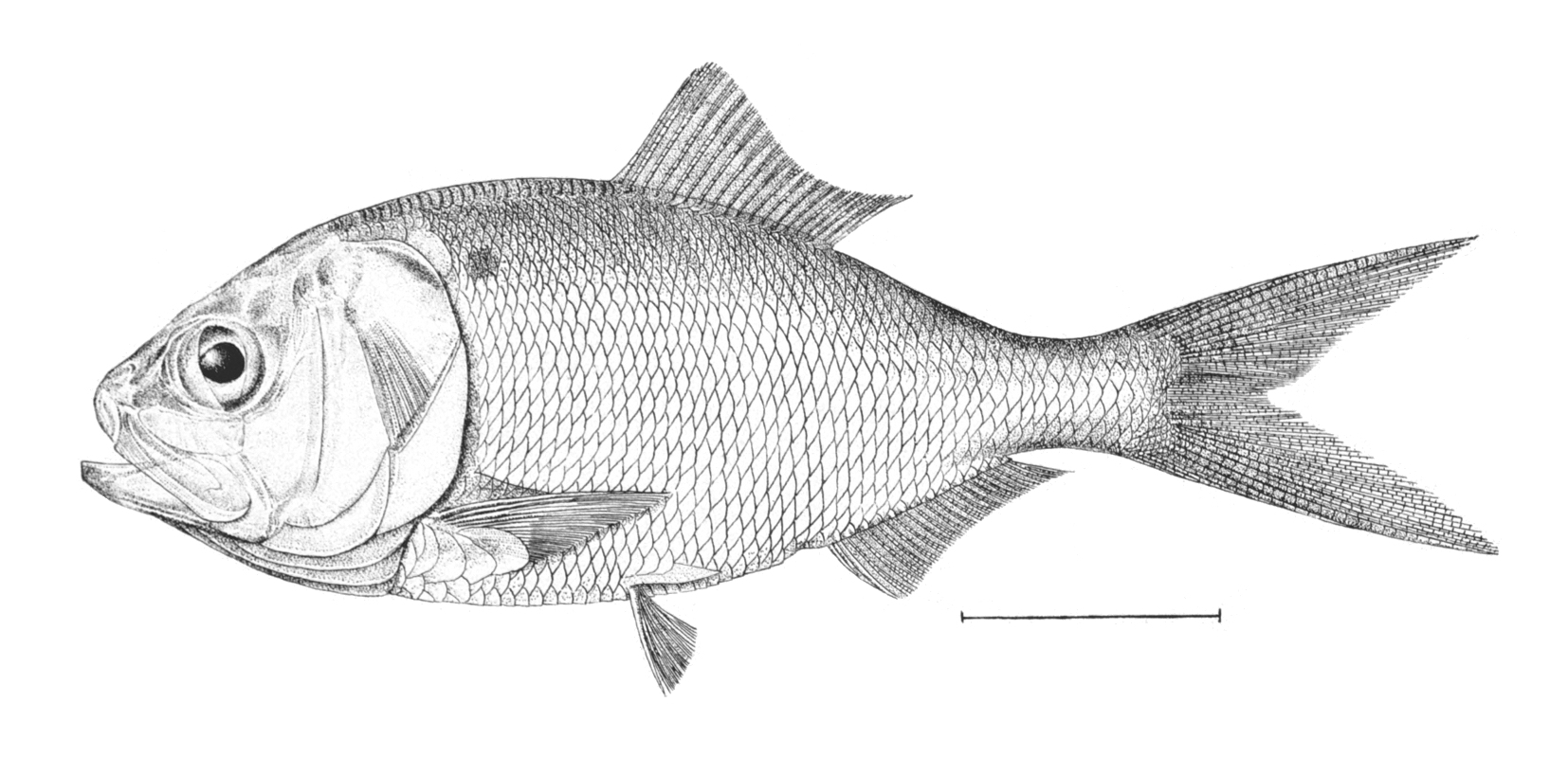 The gulf menhaden, Brevoortia patronus. The specimen #892 A, U. S. National Museum, collected at Brazos Santiago, Tex., by General Van Vleet.